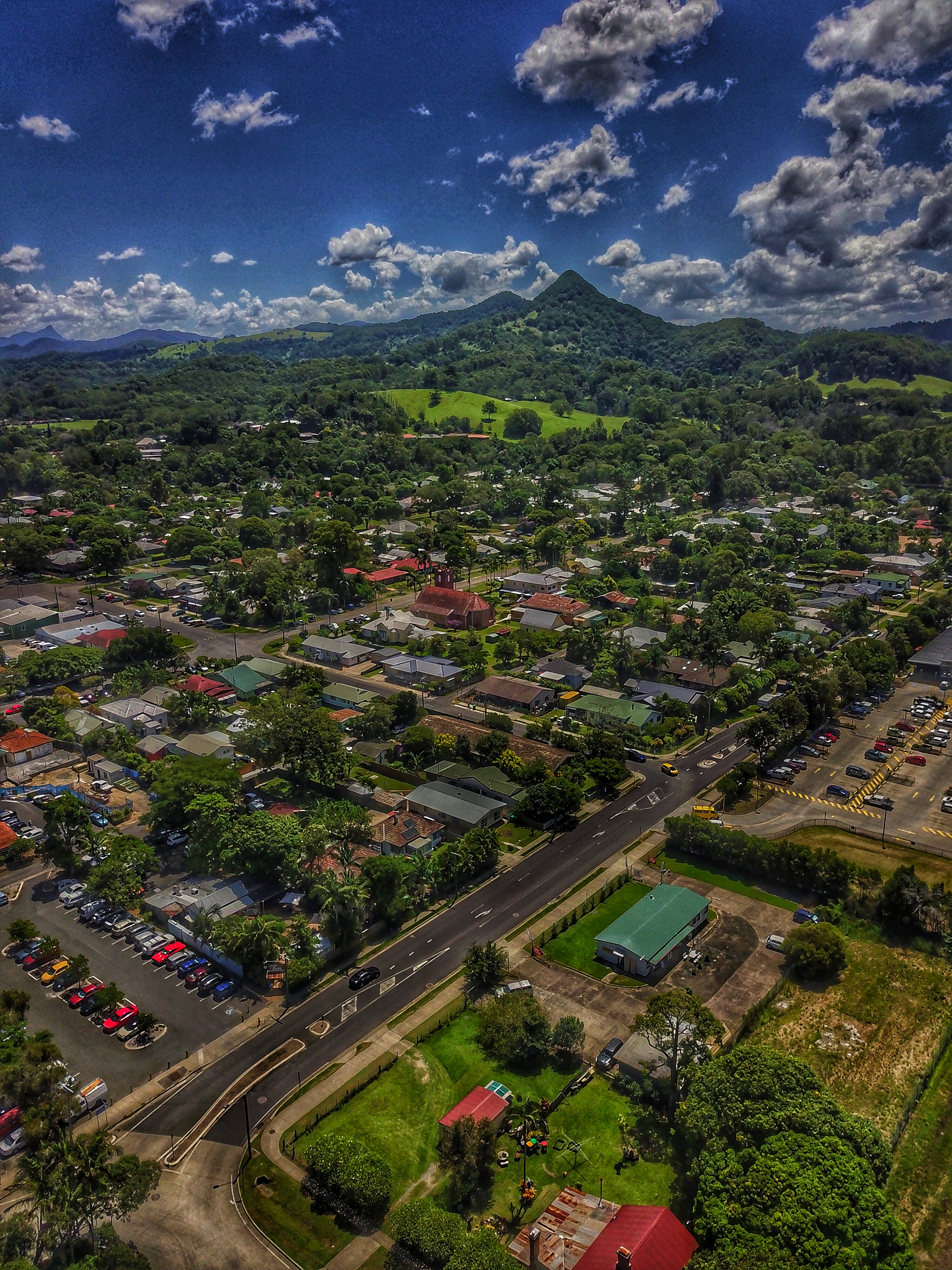 Aerial perspective of Mullimbimy